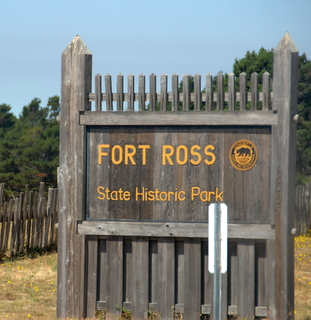 Fort Ross State Historic Park, California, USA